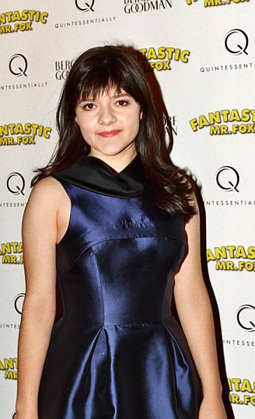 Photo of Madeleine Martin from October, 2009